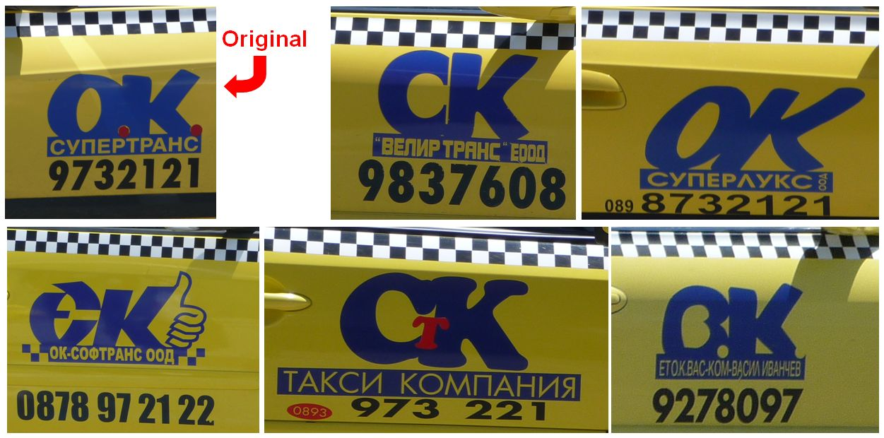 Different taxi companies at Sofia Airport with similar logos. Price difference: up to factor 10!